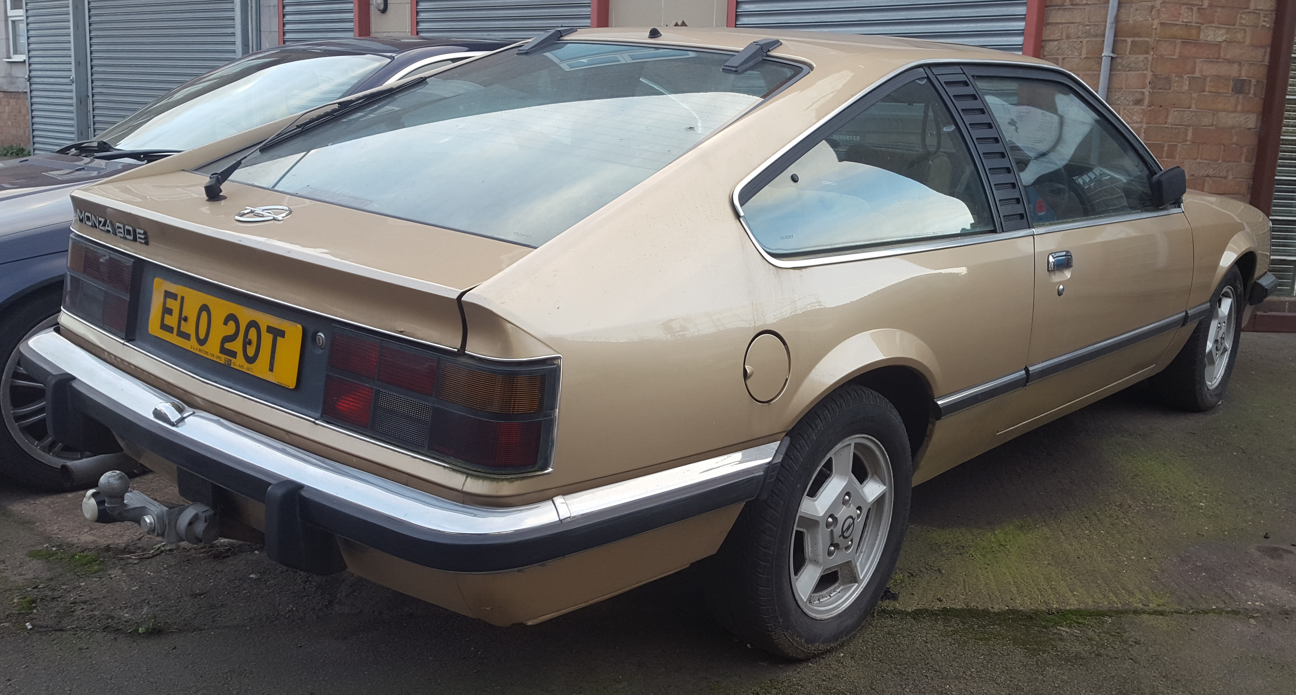 1979 Opel Monza Automatic 3.0 Rear Taken in Leamington Spa